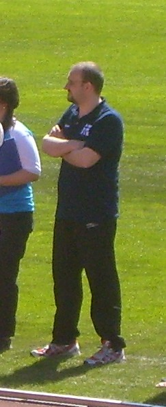 Italian volleyball coach Mauro Berruto at the opening of the Power cup volleyball tournament in Lahti, 2007.